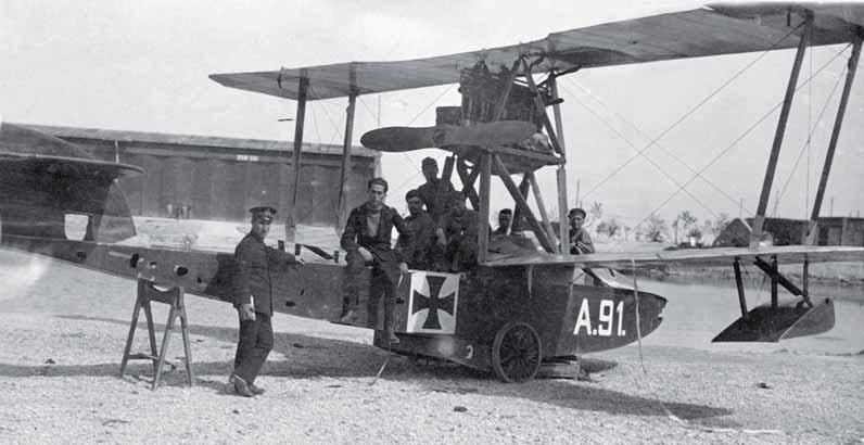 Umberto Calvello with personell of 261st Squadron next to the wreckage of A91 shotdown and captured on 4 may 1918